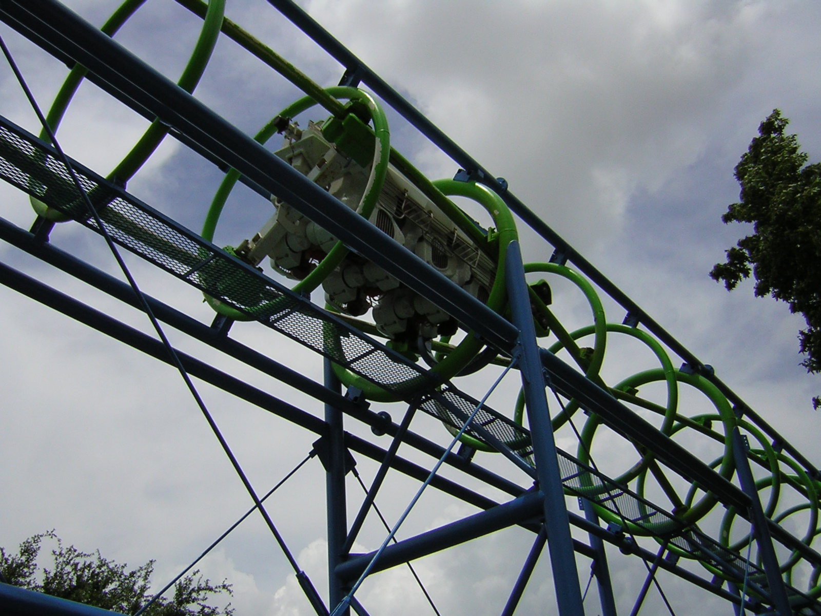 Although, it's very rough, it's still quite enjoyable.Ultra Twister